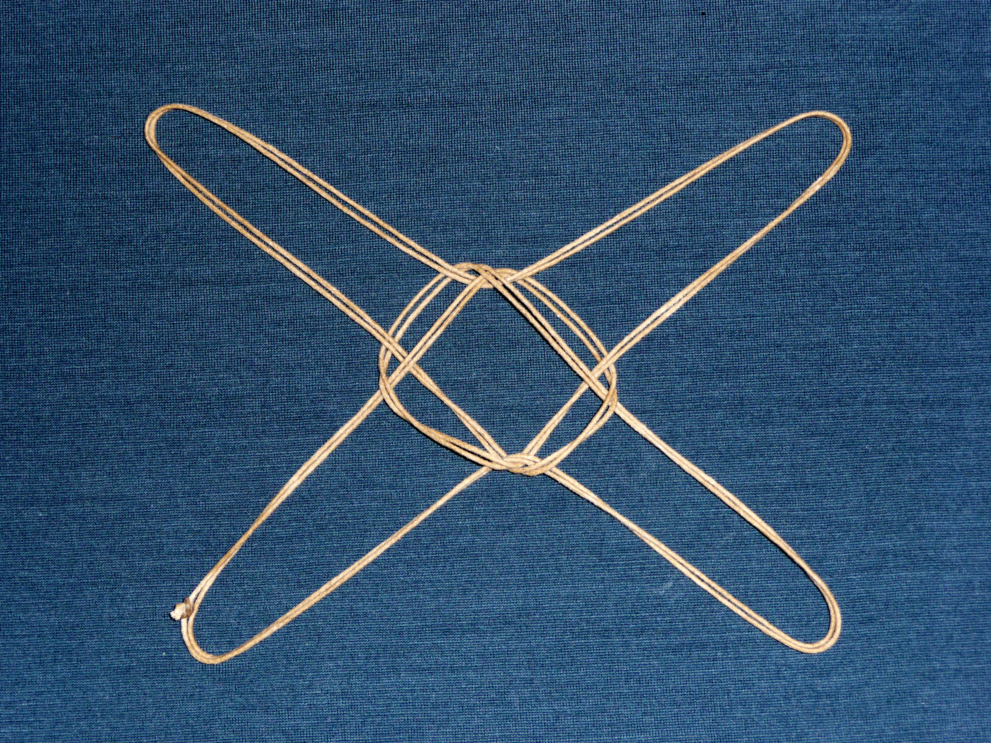 The Plinthios Brokhos, a string figure described by Greek physician Heraklas in his first century monograph on medical knots and slings. It is the oldest known written description of a string figure.[1] This example was produced using the English translation of the Greek instructions given in Cyrus Day's Quipus and Witches' Knots. The purpose described for the sling was to set and bind a fractured jaw. In practice, the four loops would be made longer in order to be tied atop/behind the patient's head with the chin in the center of the figure.[2] NOTE: The pictured example is formed in a doubled loop of cord for size and visibility reasons, a simple single loop is described in Day's book. ↑ Miller, Lawrence G. (1945). "The Earliest (?) Description of a String Figure". American Anthropologist, New Series 47 (3): 461-462. ↑ Day, Cyrus L. (1967) Quipus and Witches' Knots, Lawrence: University of Kansas Press, pp. 86–89, 124–126